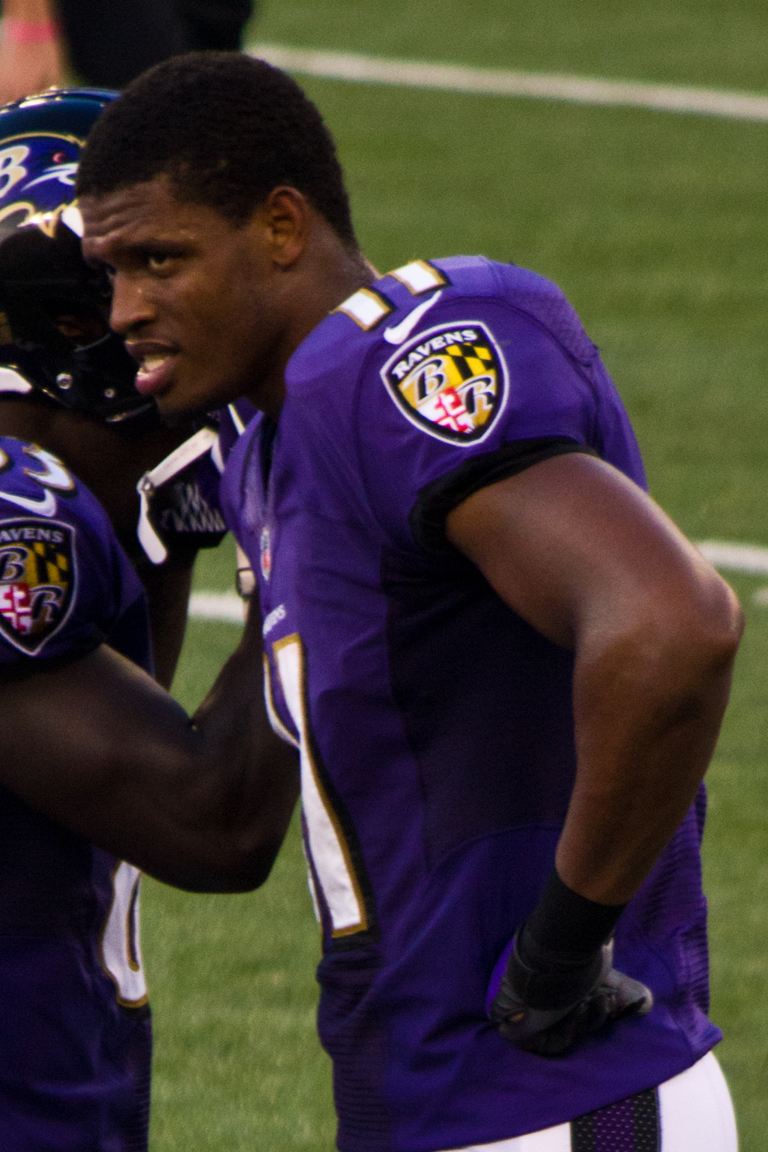 Jordan Mabin at Ravens M&T Bank Stadium practice in August 2012